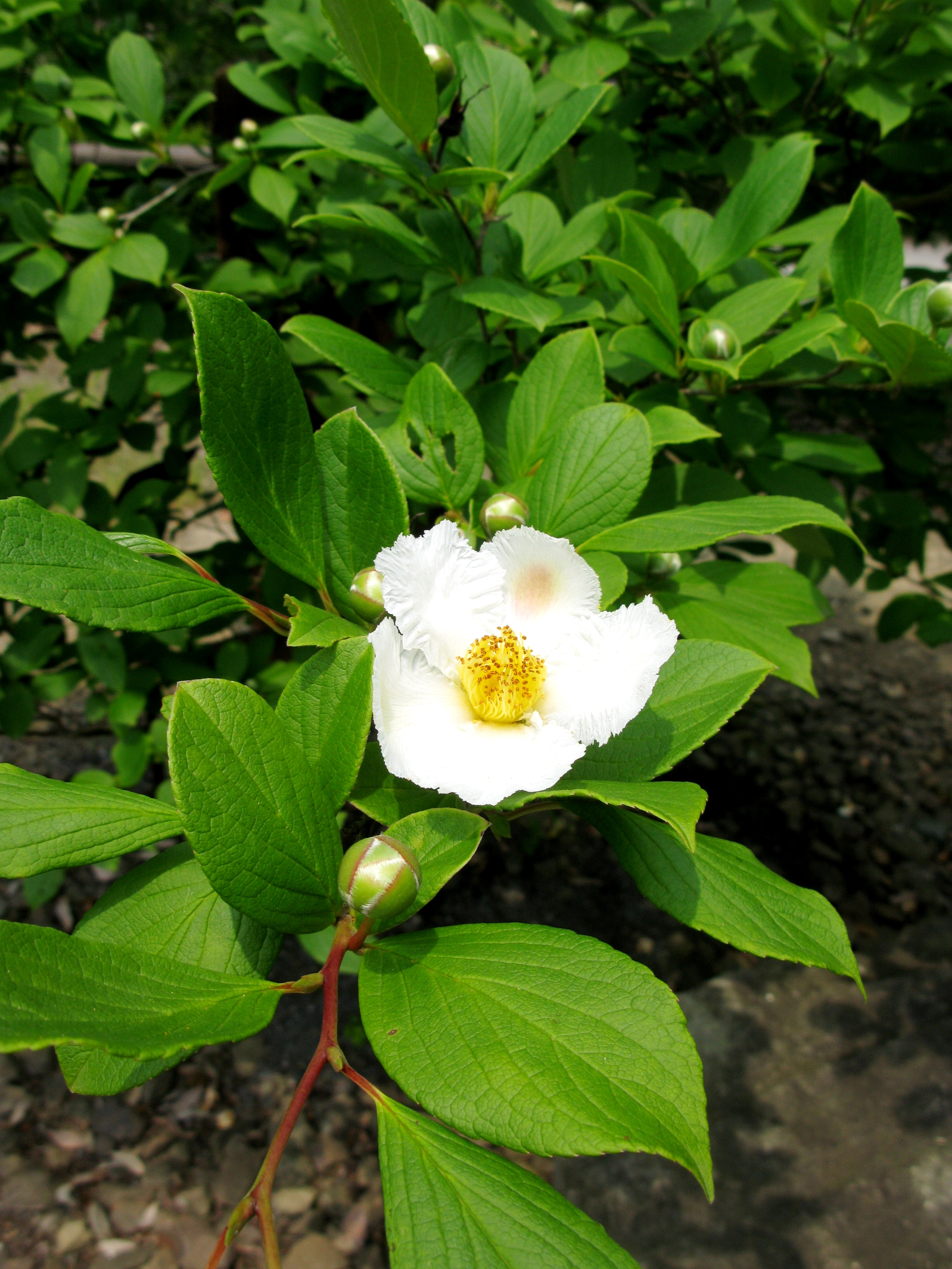 Stewartia pseudocamellia, Sendai city, Miyagi pref., Japan